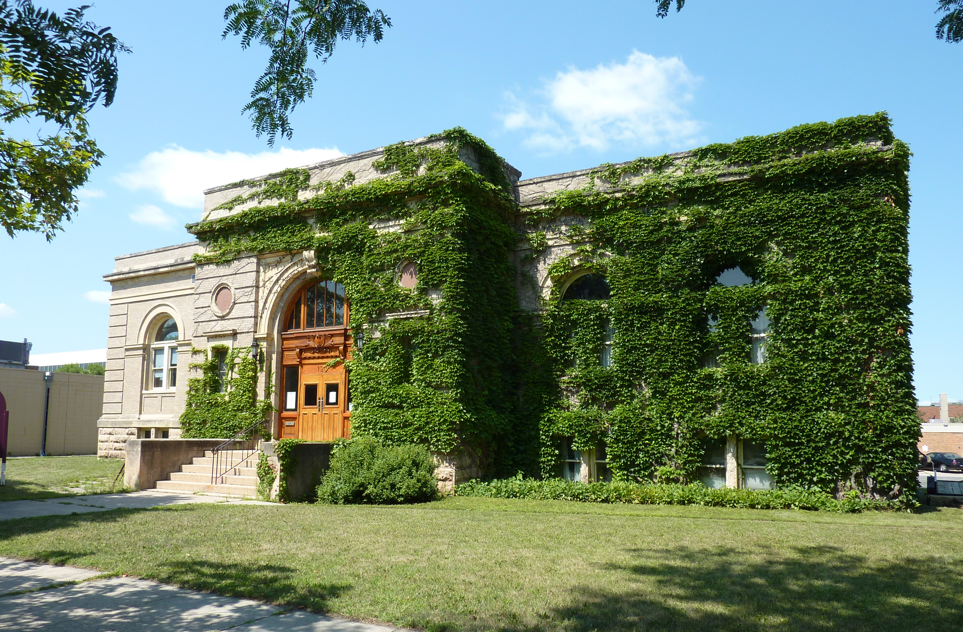 Mankato Public Library and Reading Room, now the Carnegie Art Center, Mankato, Minnesota, USA.